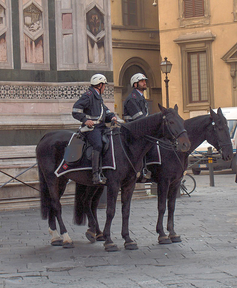 Florence municipal police on horseback in Piazza Duomo, Florence (Italy), Own photo - photo made on 12 October 2005